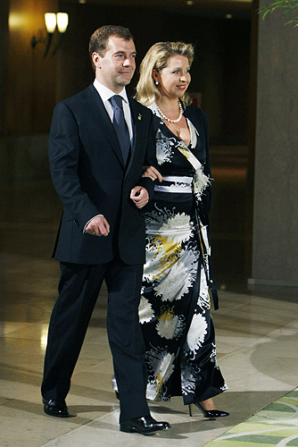 TOYAKO ONSEN, HOKKAIDO, JAPAN. With wife Svetlana.